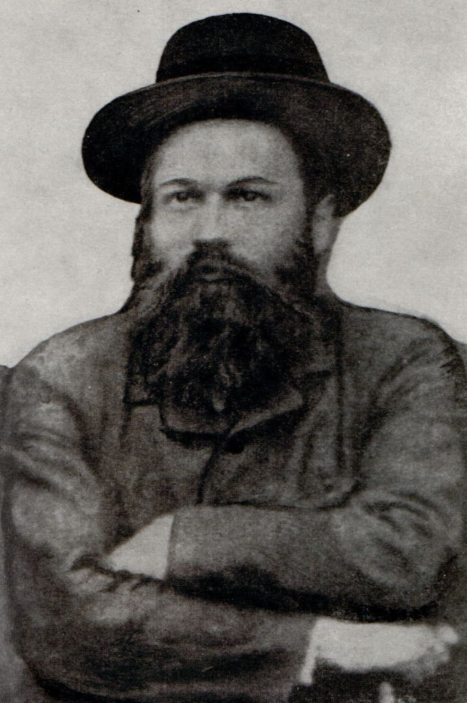 Dragiša Lapčević